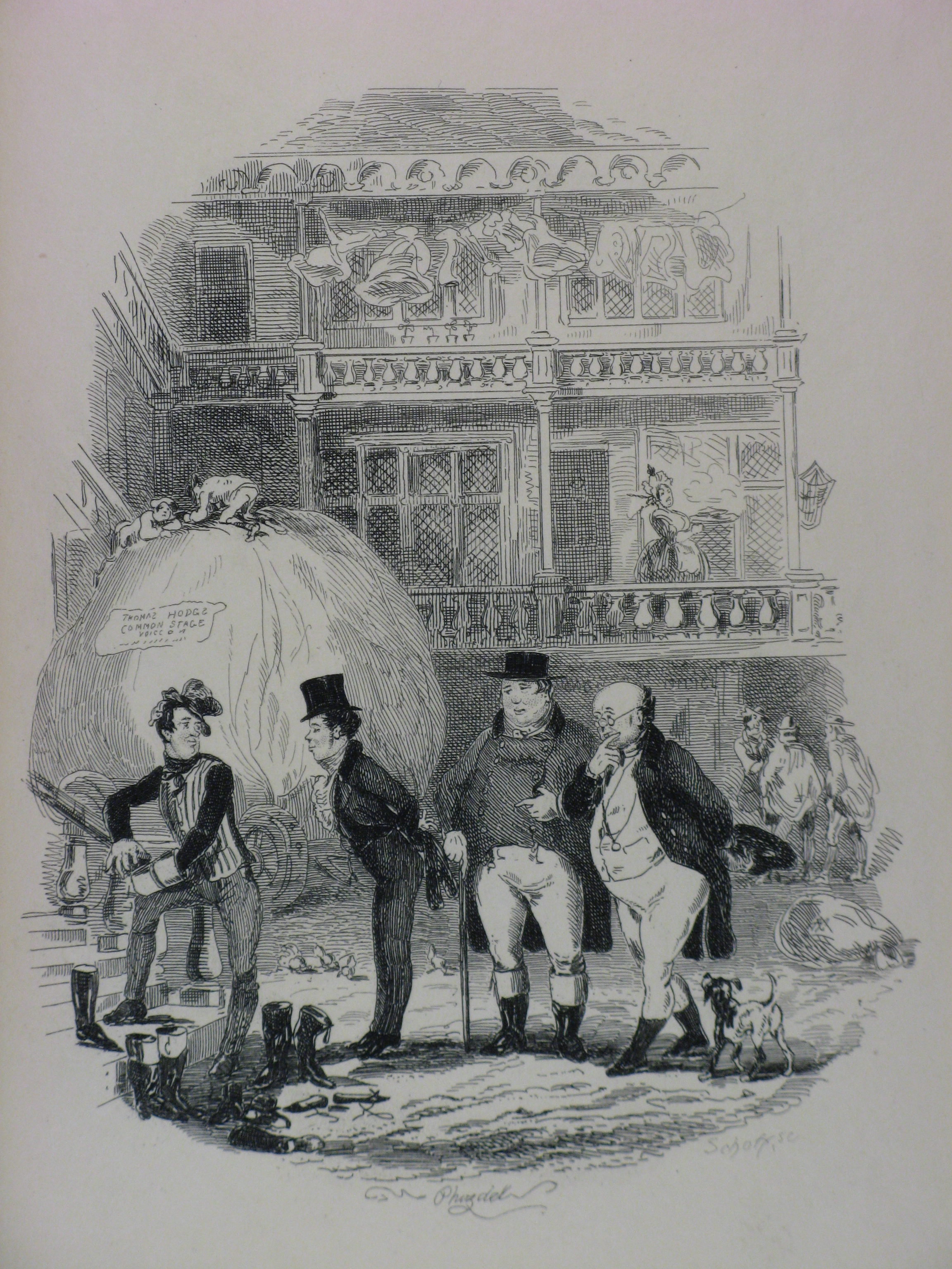 A photograph of an engraving in The Writings of Charles Dickens volume 1, The Pickwick Club, titled "First Appearance of Mr. Samuel Weller".